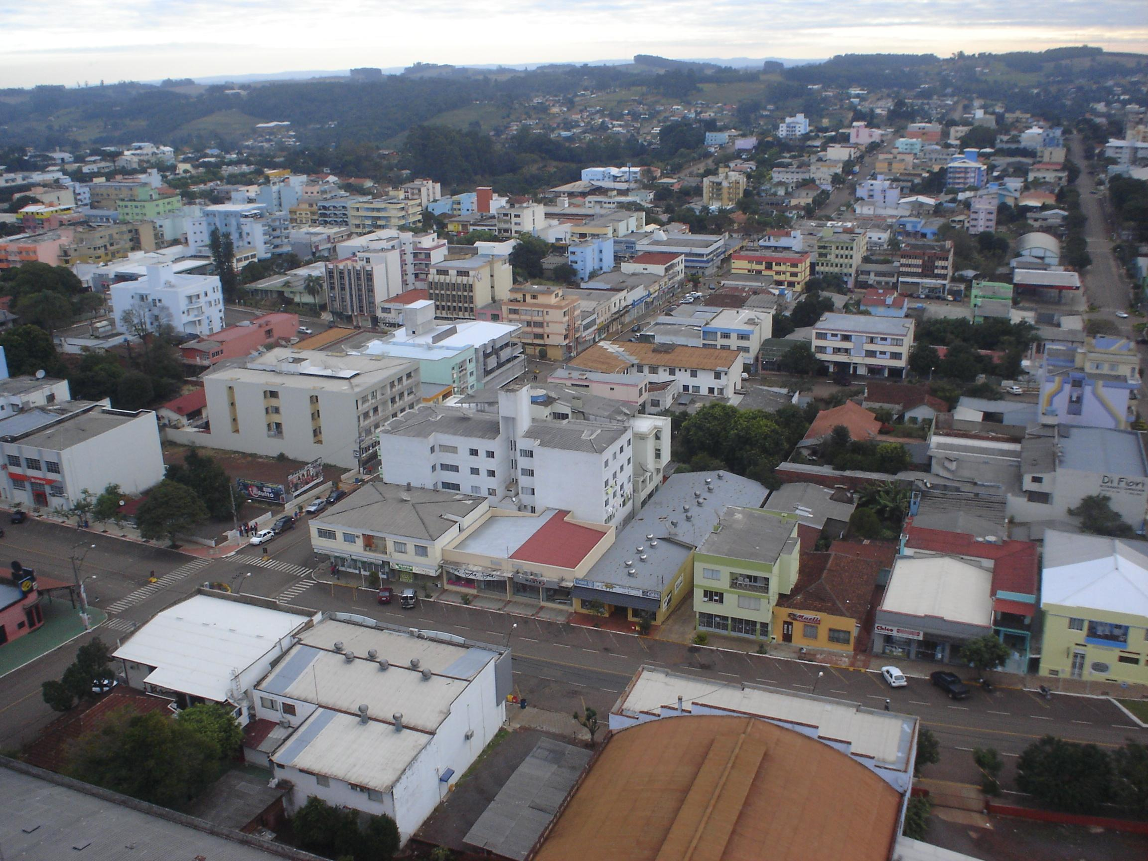 City of São Miguel do Oeste